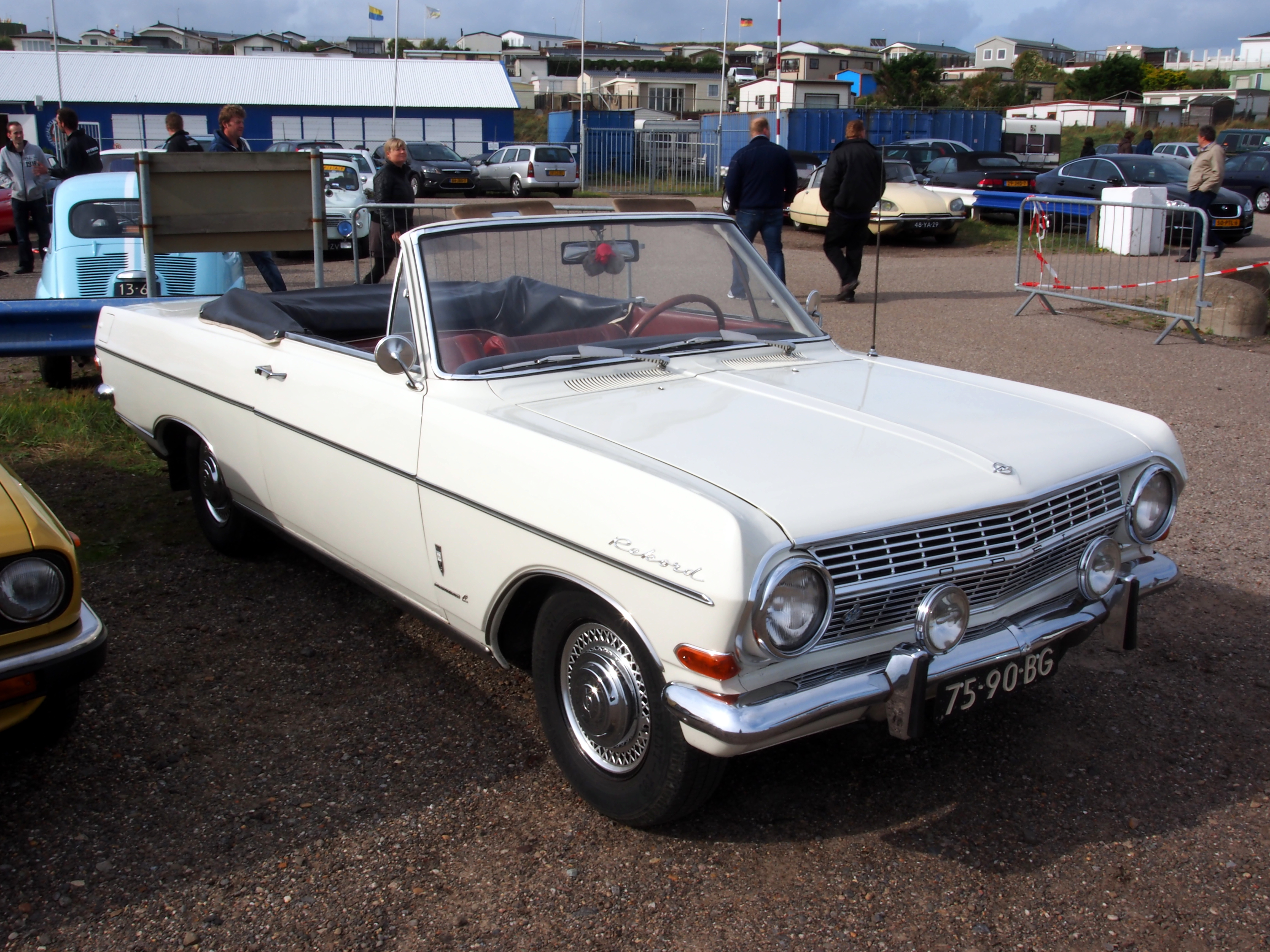 White 1966 Opel Rekord, convertible conversion by Karl Deutsch